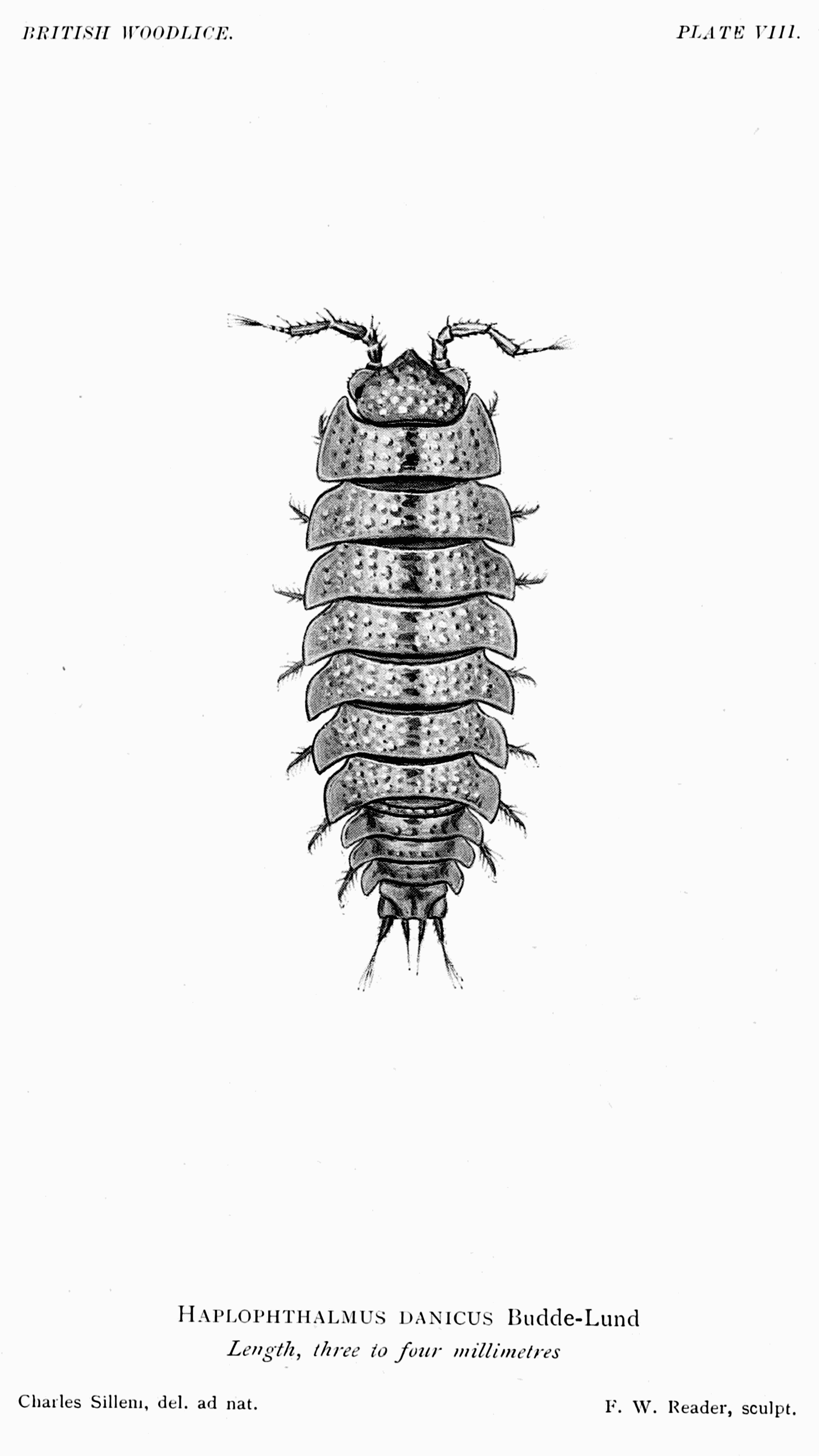 Illustration from the book given under "Source"